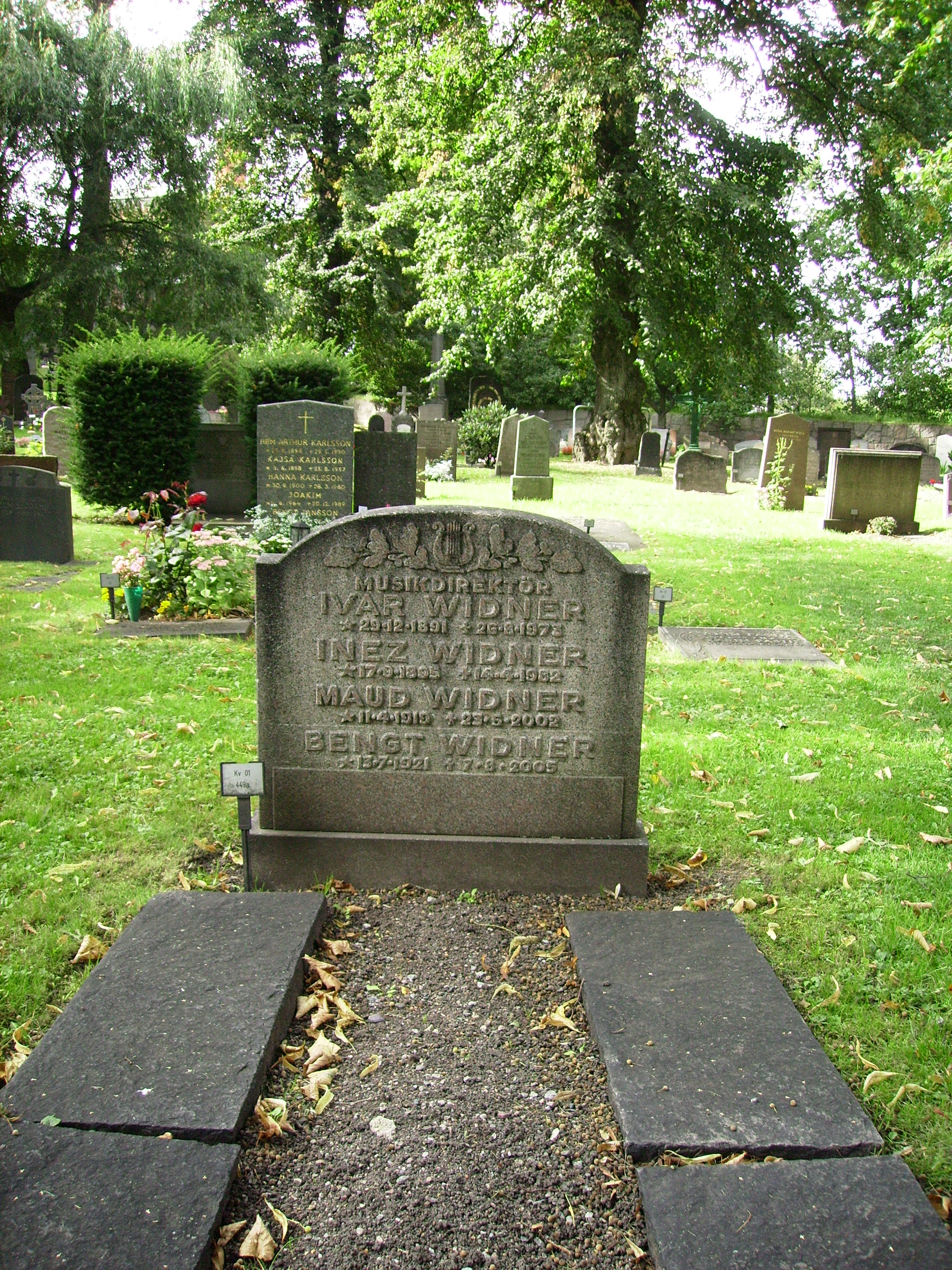 Picture of Ivar Widner's grave at Galärvarvskyrkogården in Stockholm